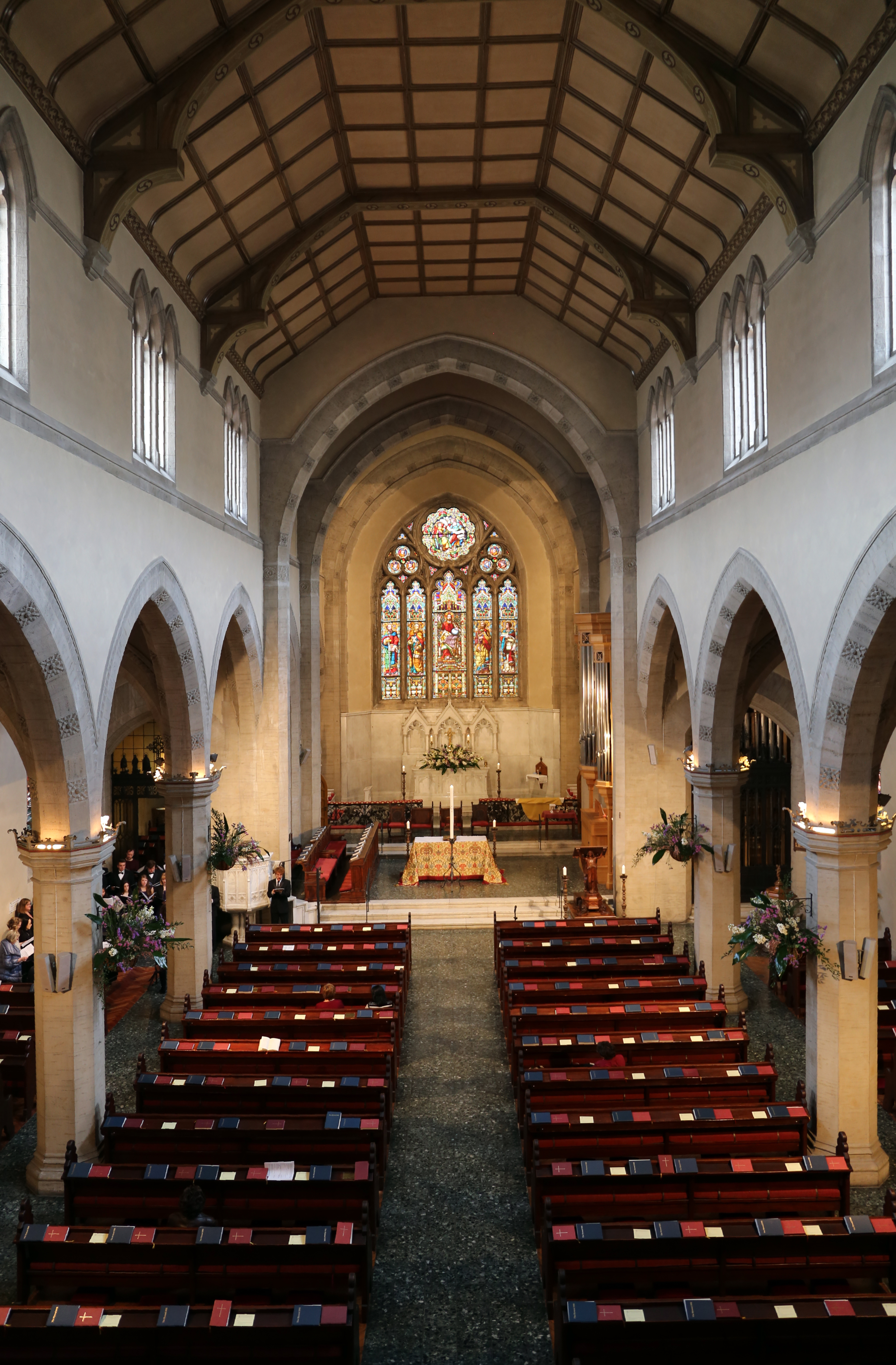 Saint James (Florence)